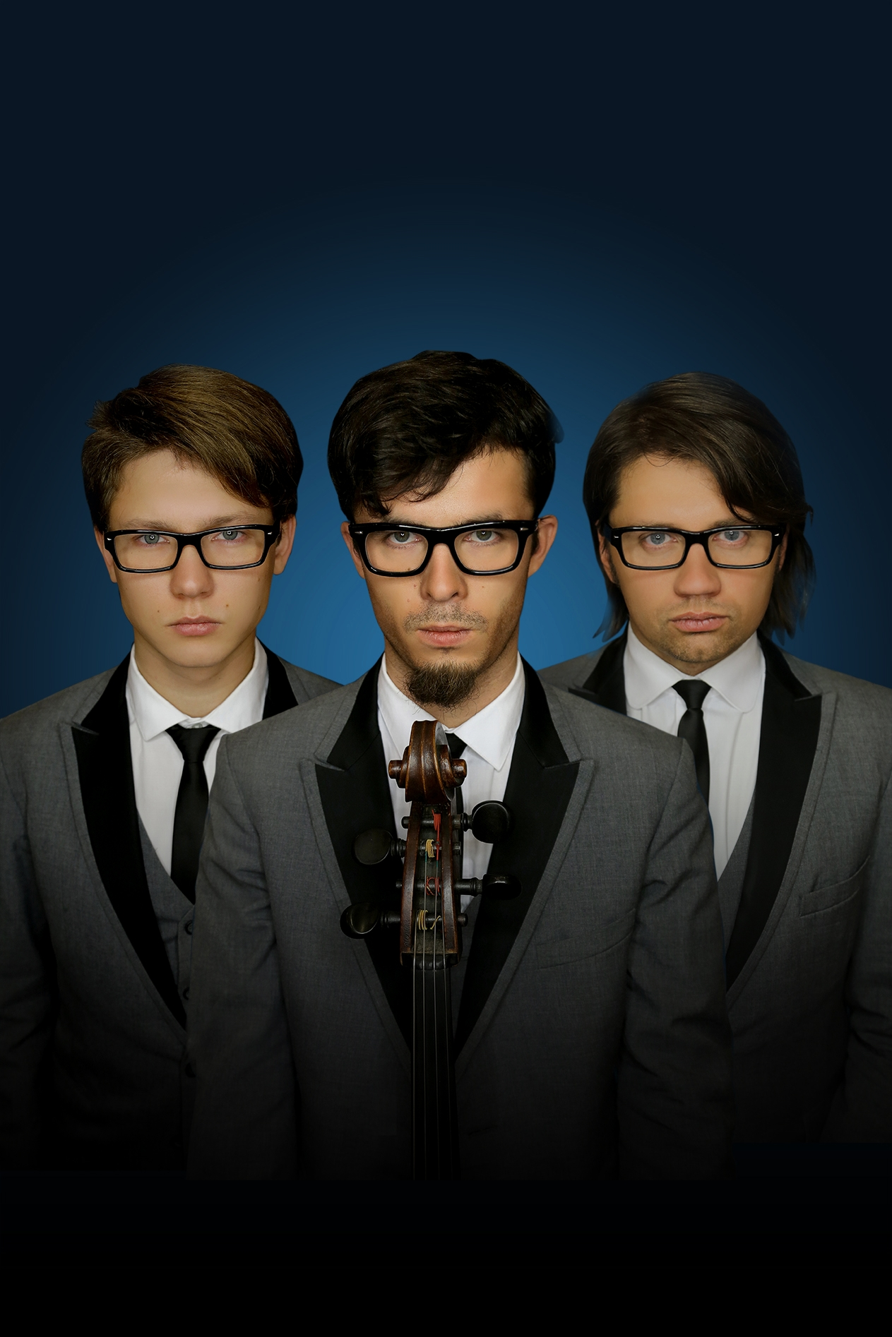 From latest photo shoot